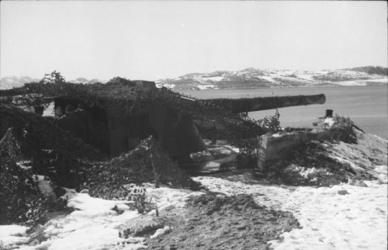 15cm armstrong canon at Hysnes coastal fortress.